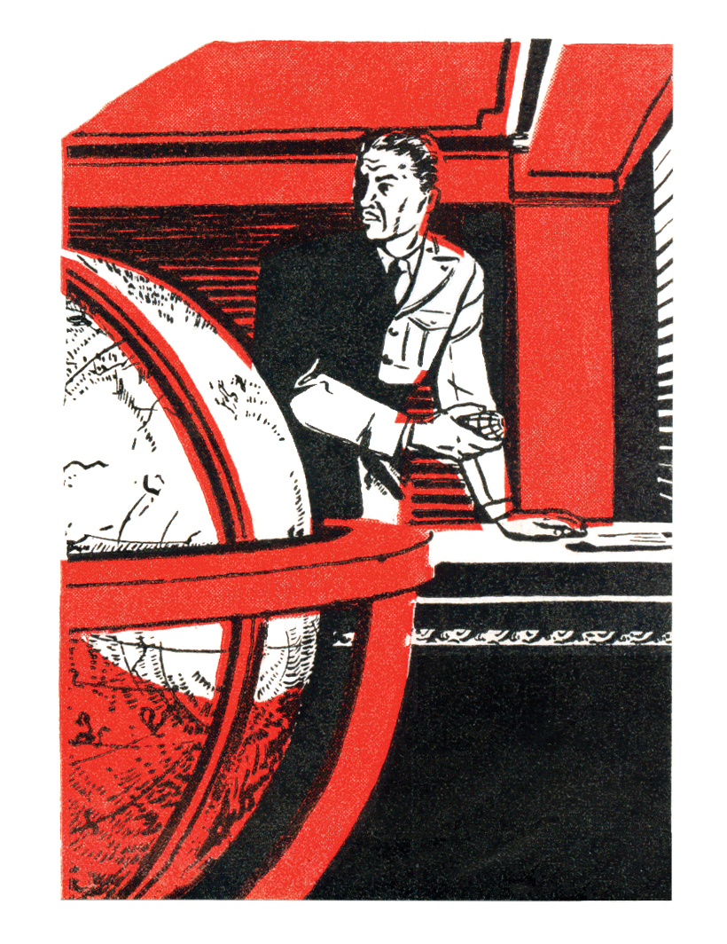 Illustration for "Booby Trap", a Nero Wolfe story by Rex Stout that first appeared in The American Magazine